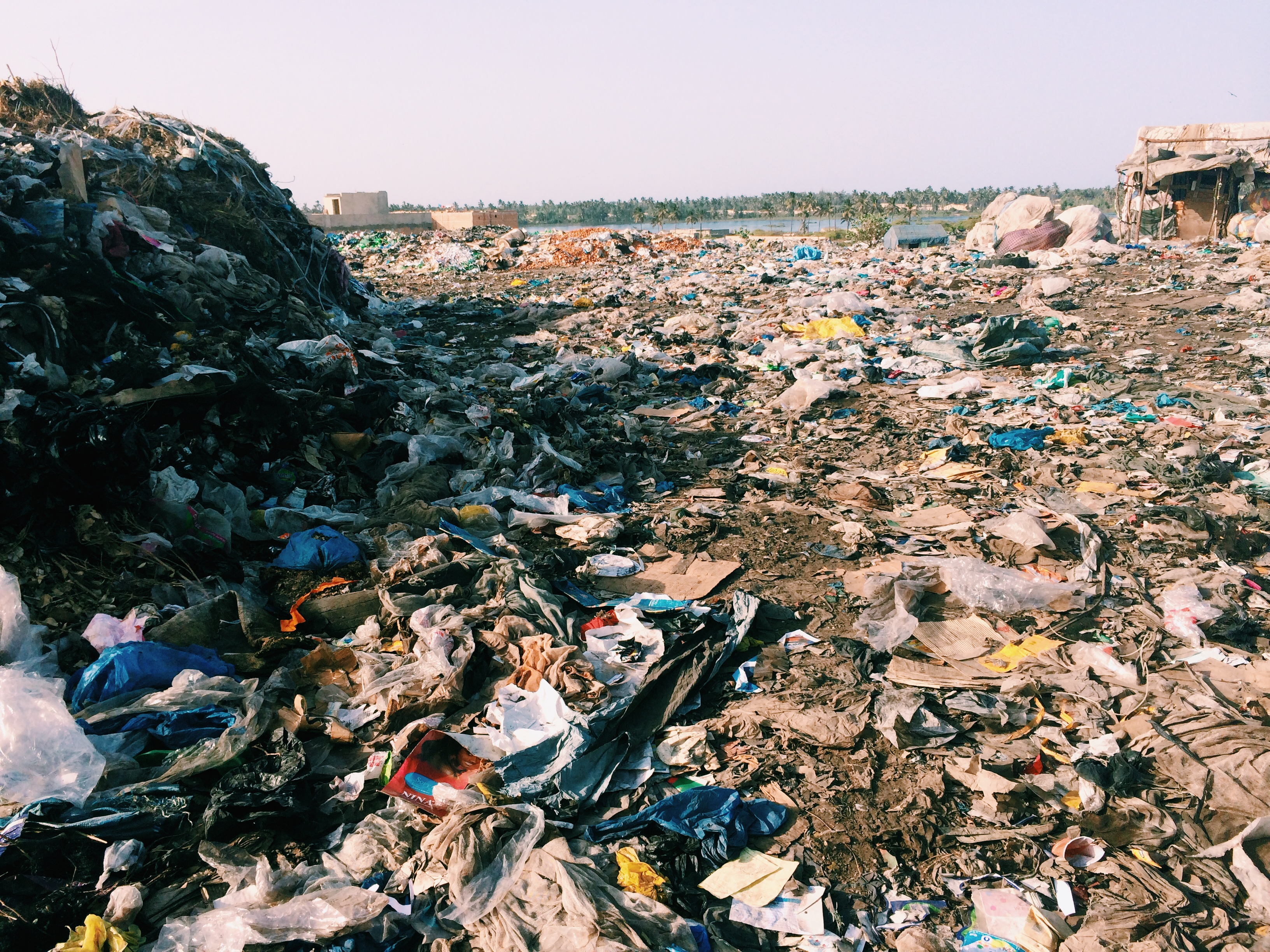 Mbeubeuss, trash dump near Dakar, Senegal.